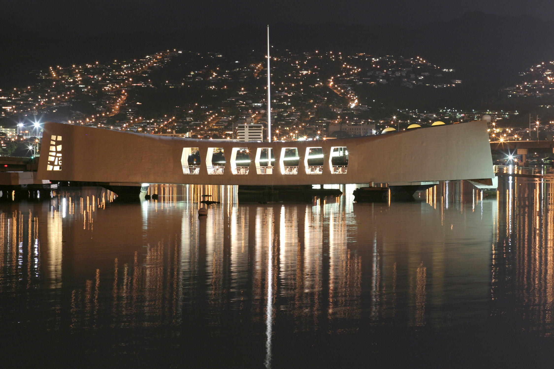 Pearl Harbor, Hawaii (Dec. 7, 2003) -- The USS Arizona Memorial is bathed in light from a neighboring community the night before the 62nd Commemoration of the Dec. 7, 1941 attack on Pearl Harbor. More than 250 distinguished visitors and veterans will attend the ceremony and will include the guided-missile destroyer USS O’Kane (DDG 77) rendering honors, followed by more than 40 wreath presentations, a 21-gun salute and the playing taps. The guest speaker will be Commander U. S. Pacific Command, Adm. Thomas B. Fargo. U. S. Navy photo by Photographer’s Mate 1st Class William R. Goodwin. (RELEASED)